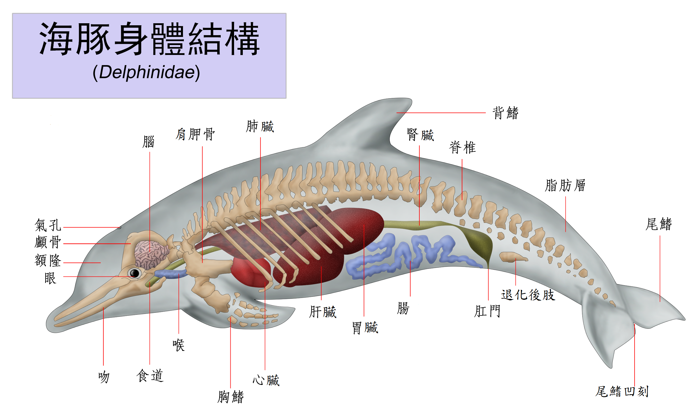 Anatomy of a Dolphin (Traditional Chinese Version)